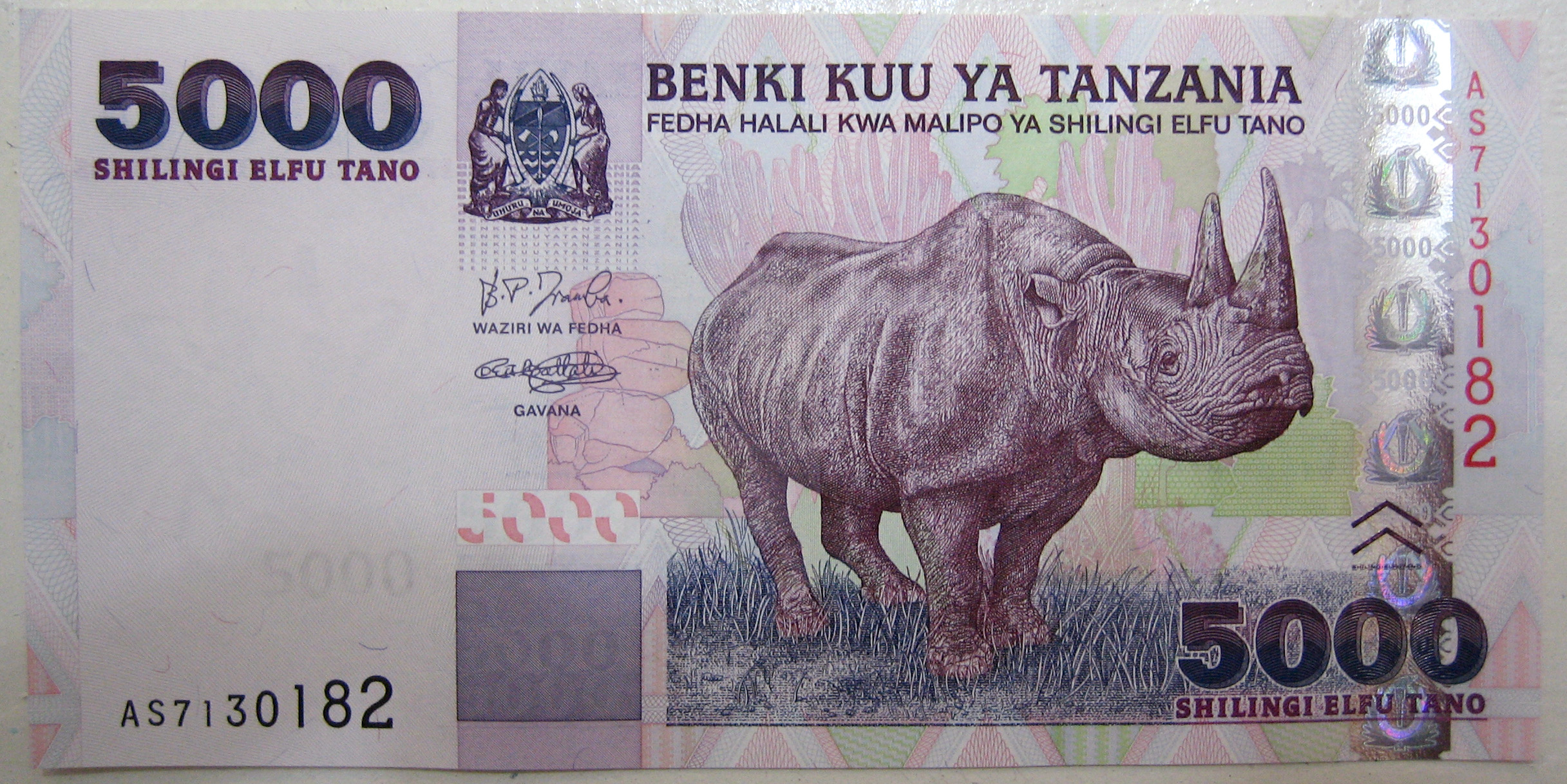 5000 Tanzanian shillings note, front, displaying a rhinoceros (issued 2003).